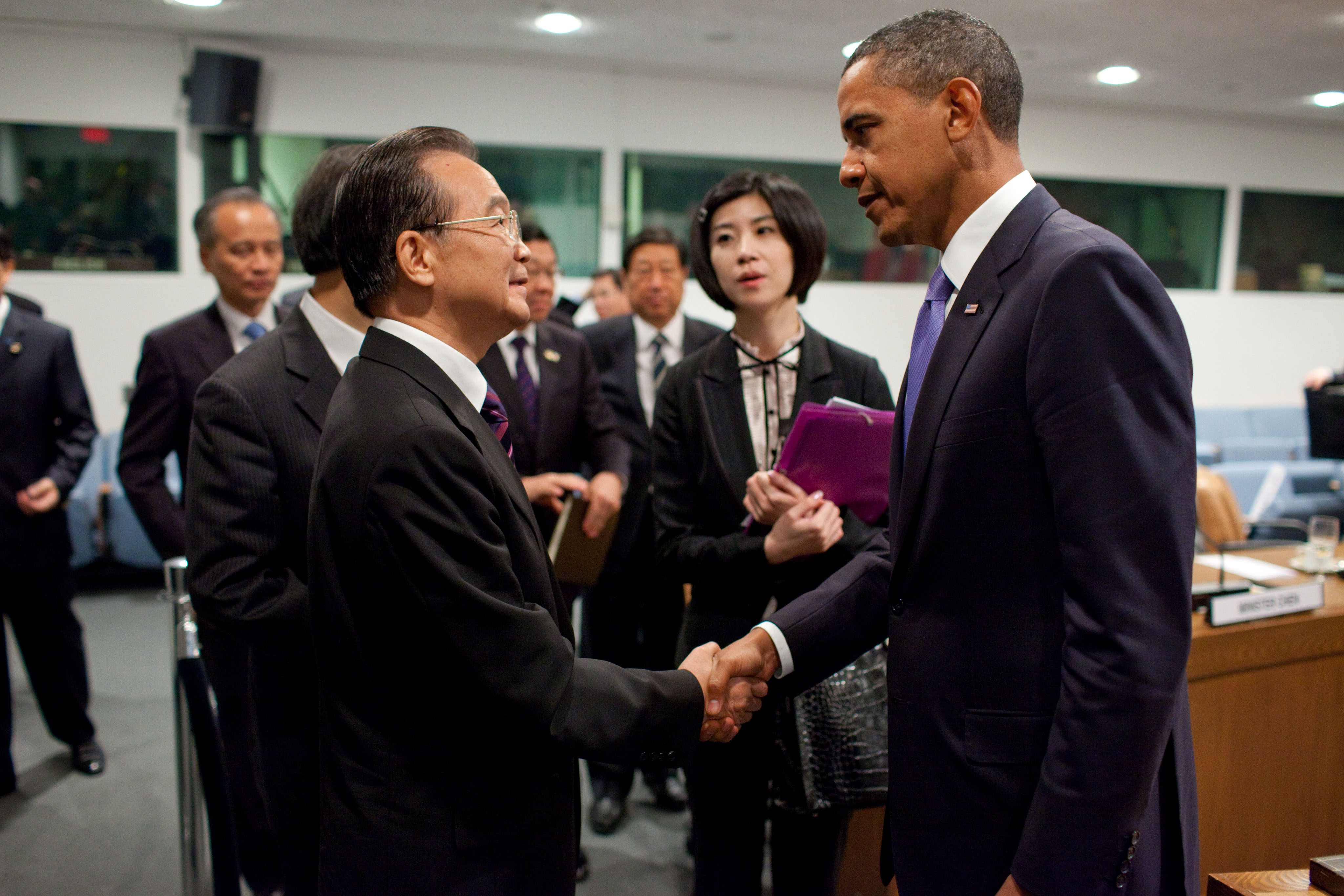 President Barack Obama greets Premier Wen Jiabao and members of the Chinese delegation after a bilateral meeting at the United Nations in New York, N.Y., Sept. 23, 2010. (Official White House Photo by Pete Souza) This official White House photograph is in the public domain from a copyright perspective, so while restrictions such as personality or privacy rights may apply, in general, manipulations are allowed.